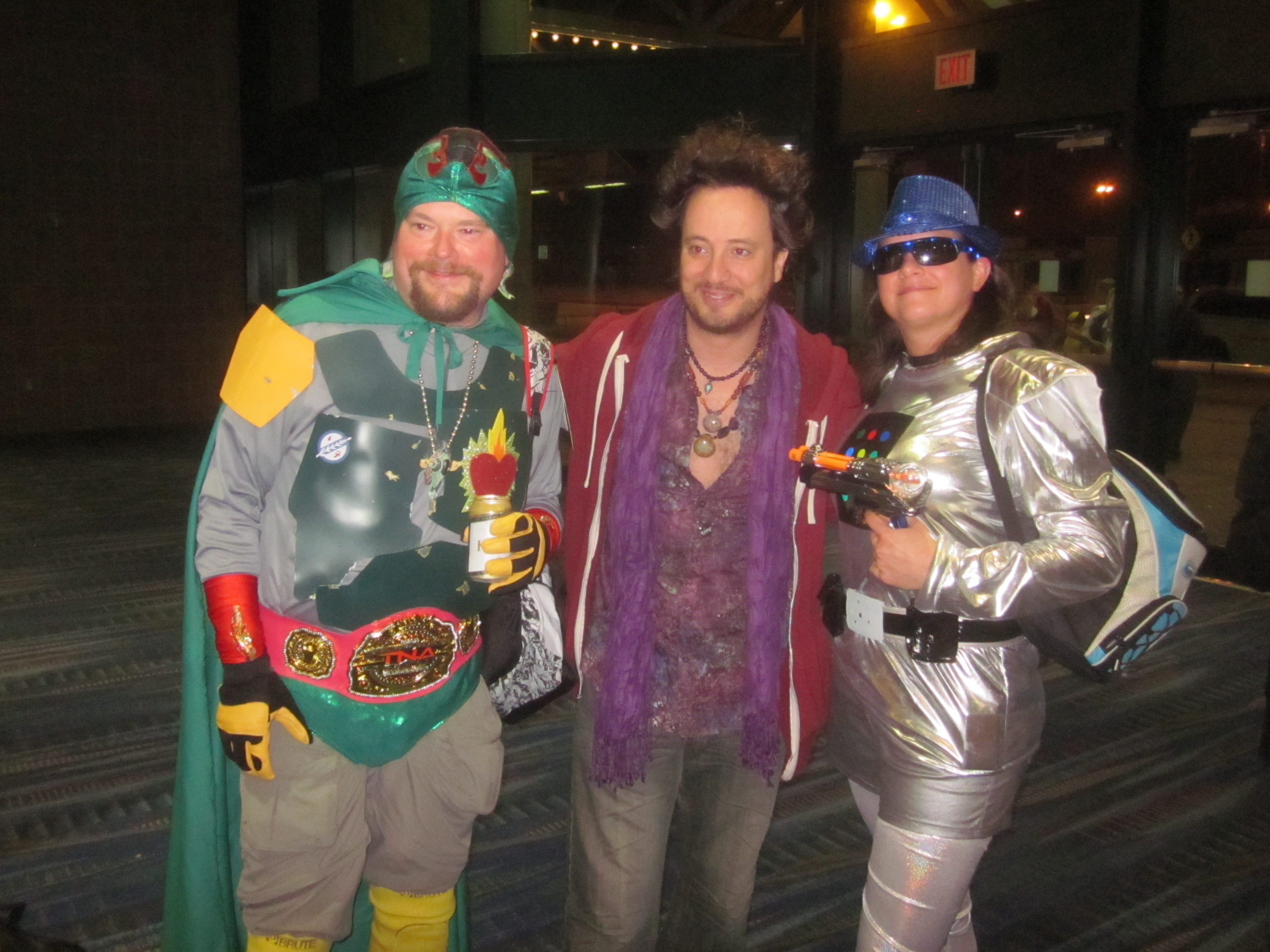 New Orleans Comic Con 2012 Wizard World at the Morial Convention Center. Giorgio A. Tsoukalos at center.